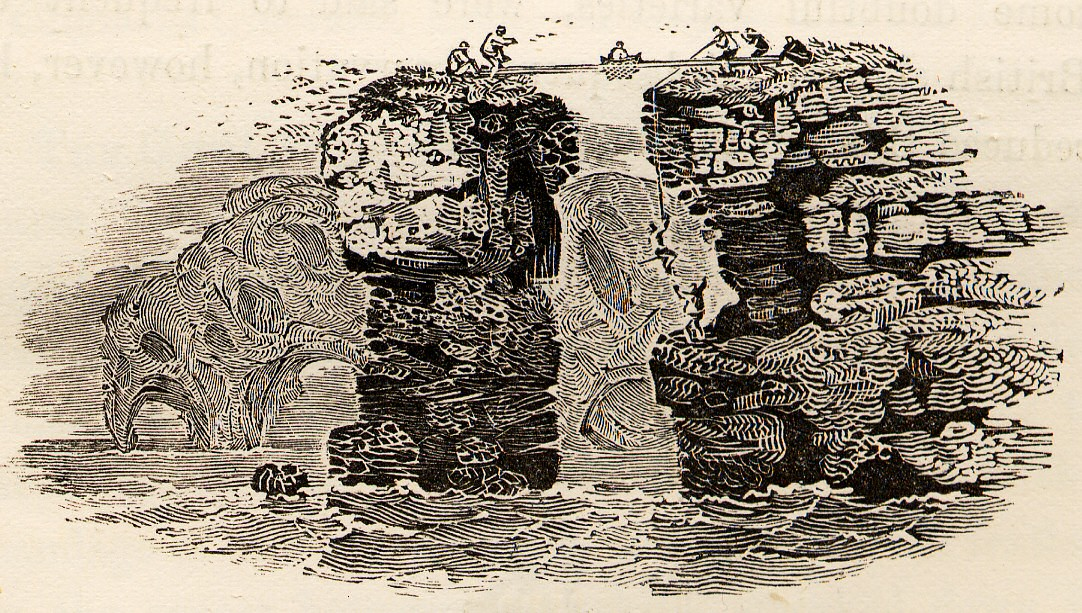 Woodcut by Thomas Bewick in History of British Birds 1797-1804